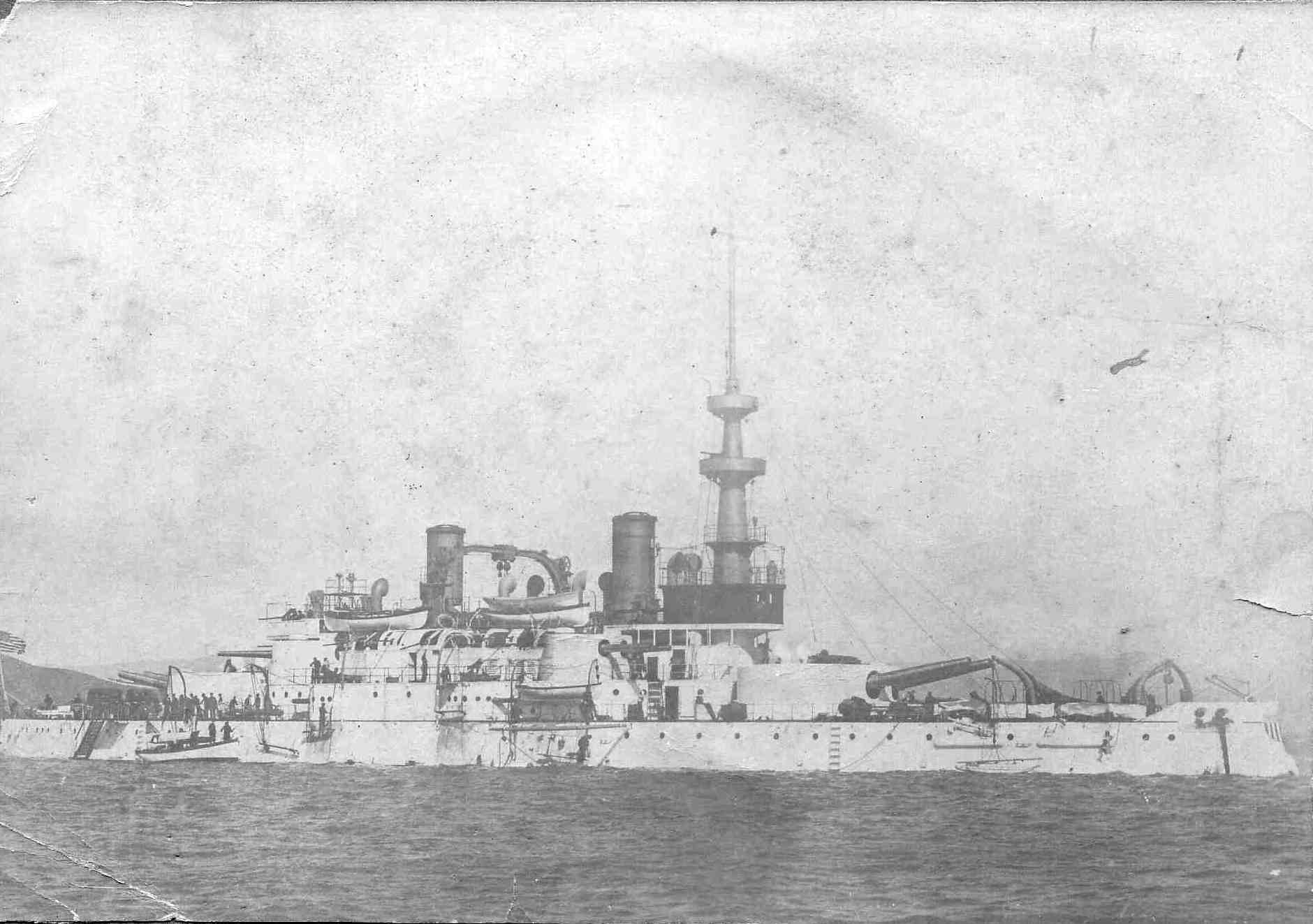 Photo of US battleship "Oregon" taken in Phillipines about 1903. Form the collection of P.H. Proctor